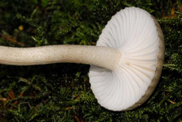 Hygrophorus pustulatus from Commanster, Belgium. The determination of the species shown in this picture has been verified.